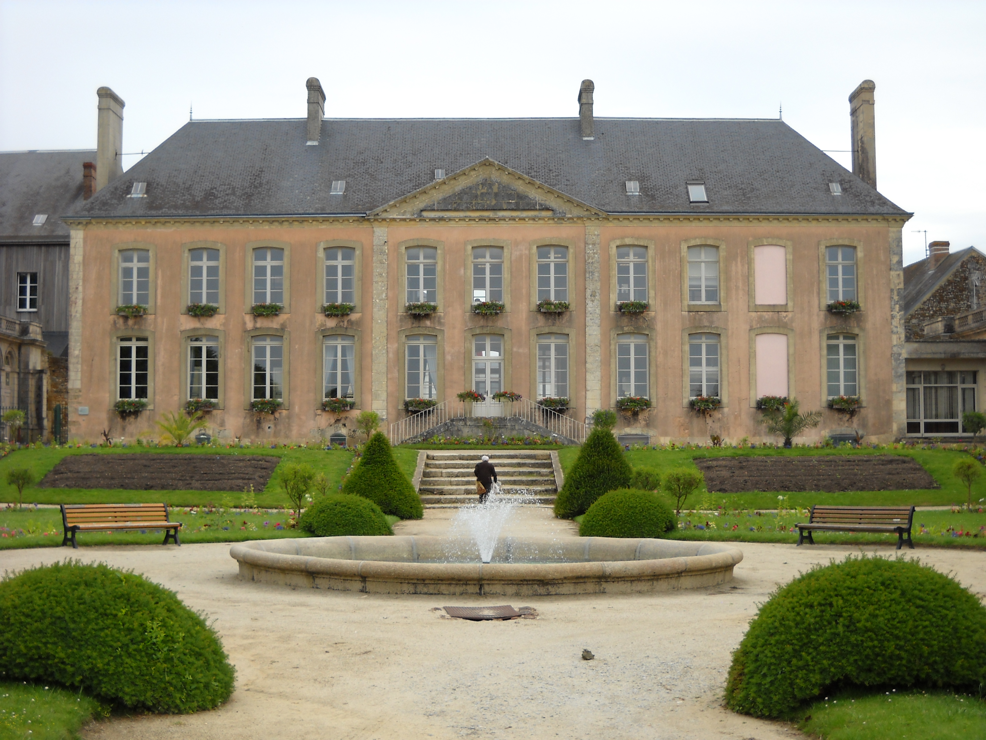 The town hall of Mortagne-au-Perche, Orne, France.